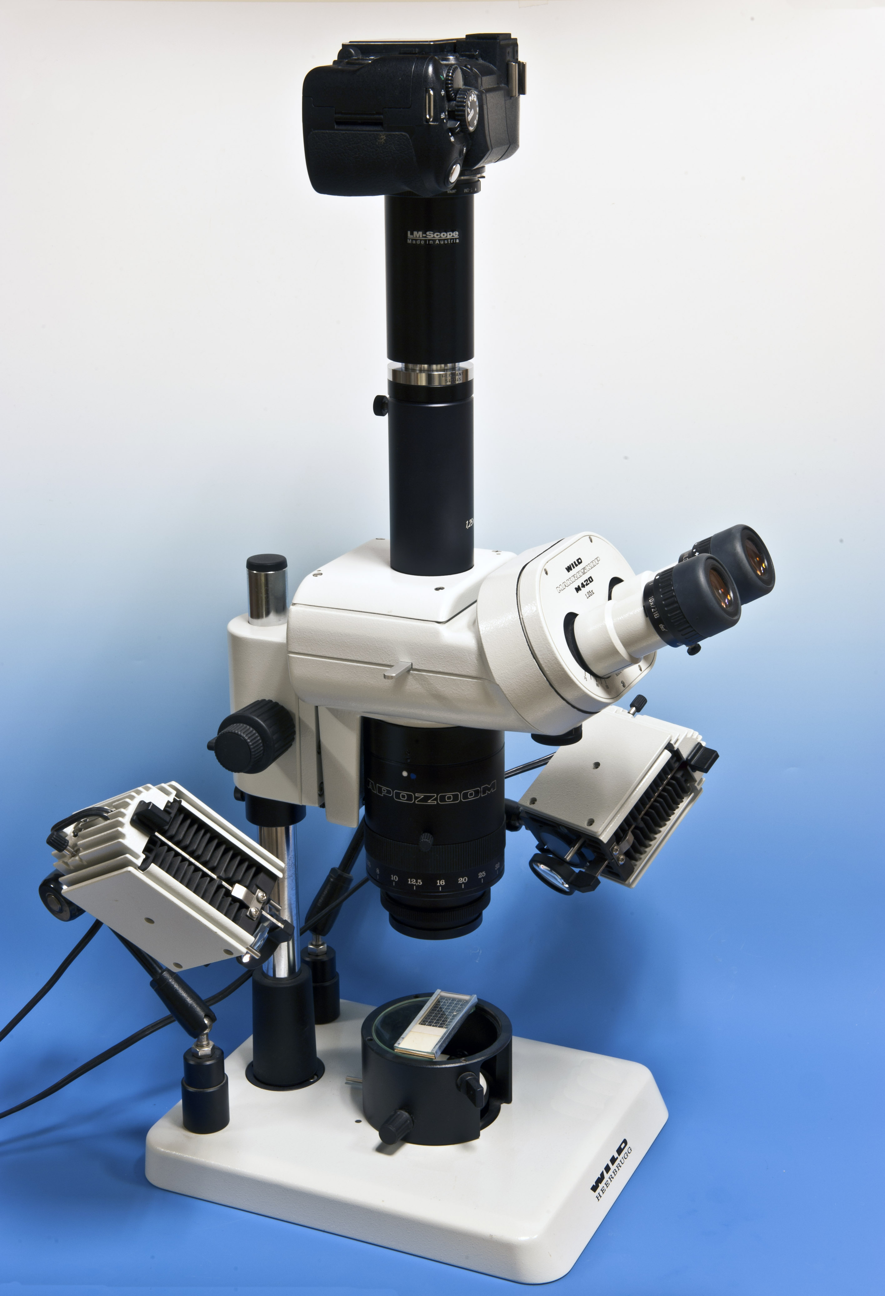 Makroskop M420 (Wild) with digital camera mounted on top